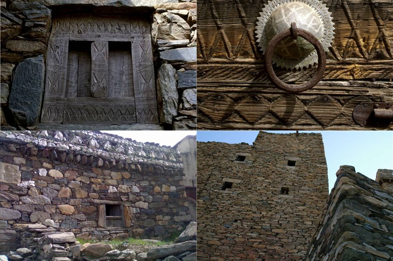 Hijazi architecture in the Hijaz Mountains